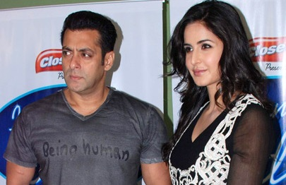 Salman Khan and Katrina Kaif at Indian Idol 6